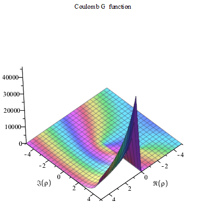 Coulomb G function plot